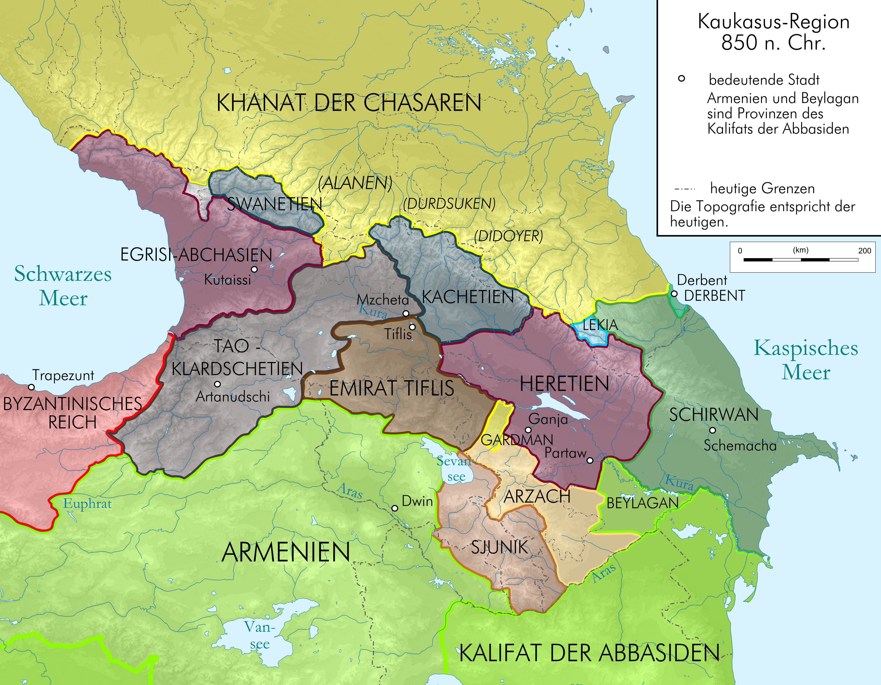 Map of Caucasus Region around 850 AD in German, sources are Putzger historischer Weltatlas Ausgabe 2005; Heinz Fähnrich: Geschichte Georgiens von den Anfängen bis zur Mongolenherrschaft. Shaker, Aachen 1993, ISBN 3-86111-683-9; File:Geom-0150bc-0600ad.jpg ; ; Atlas der Weltgeschichte. Bechtermünz Verlag, 1997, File:Arcax.jpg